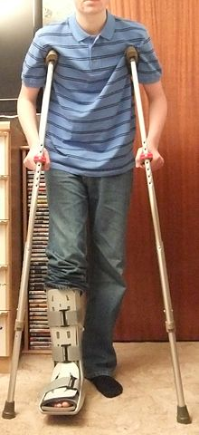 Crutch